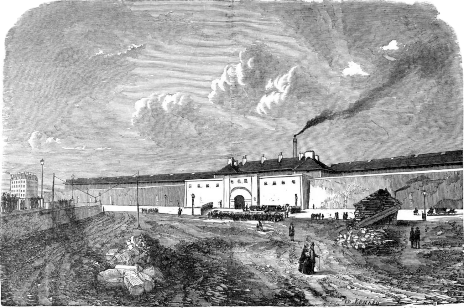 The Mazas Prison, Paris